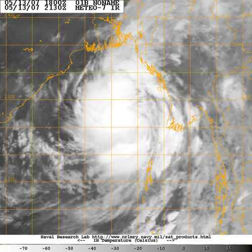 Satellite image of Tropical Storm 01B on May 13 at 2130 UTC.